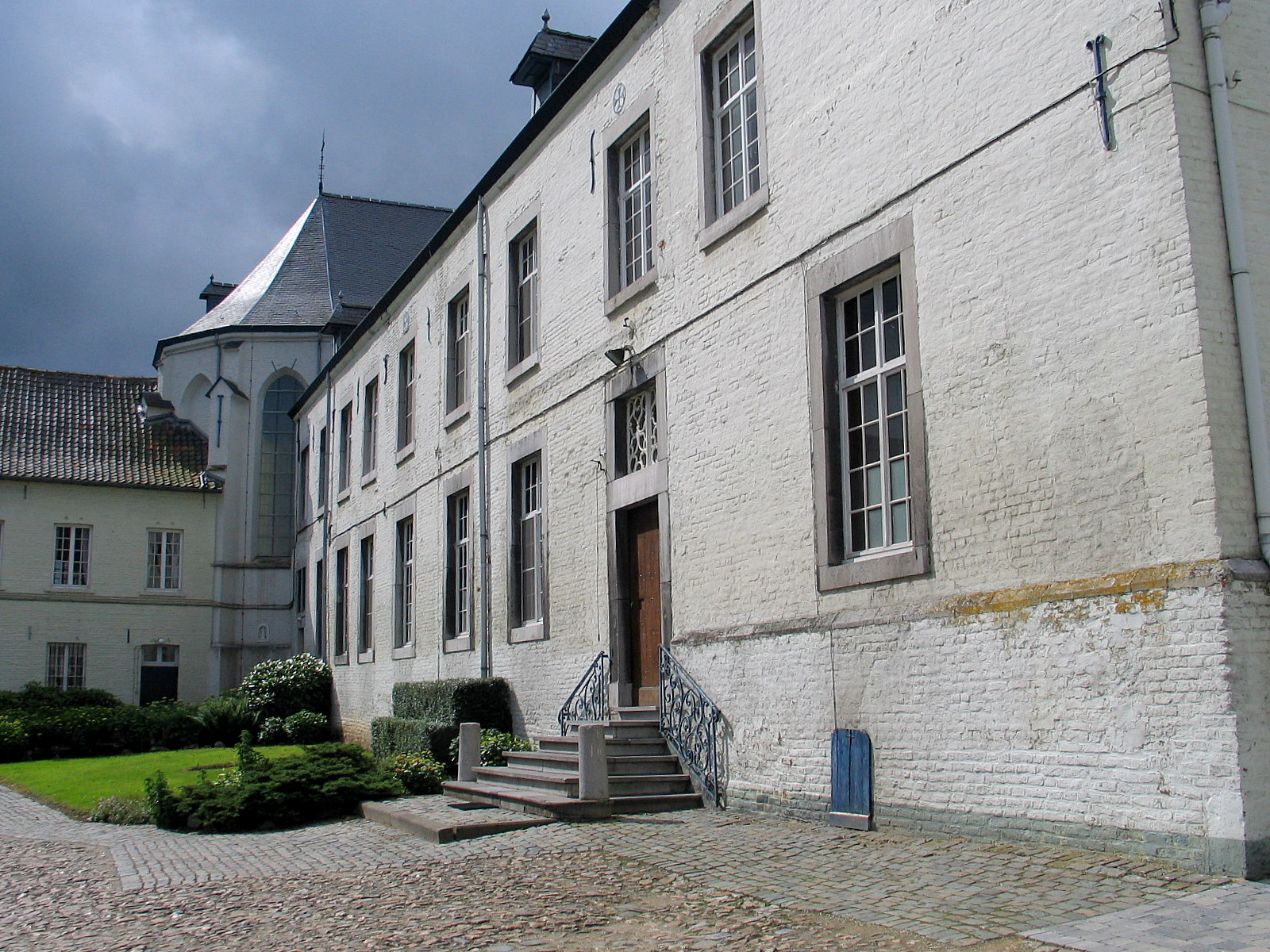 abbey of Mariënlof, Kerniel, Borgloon, Belgium